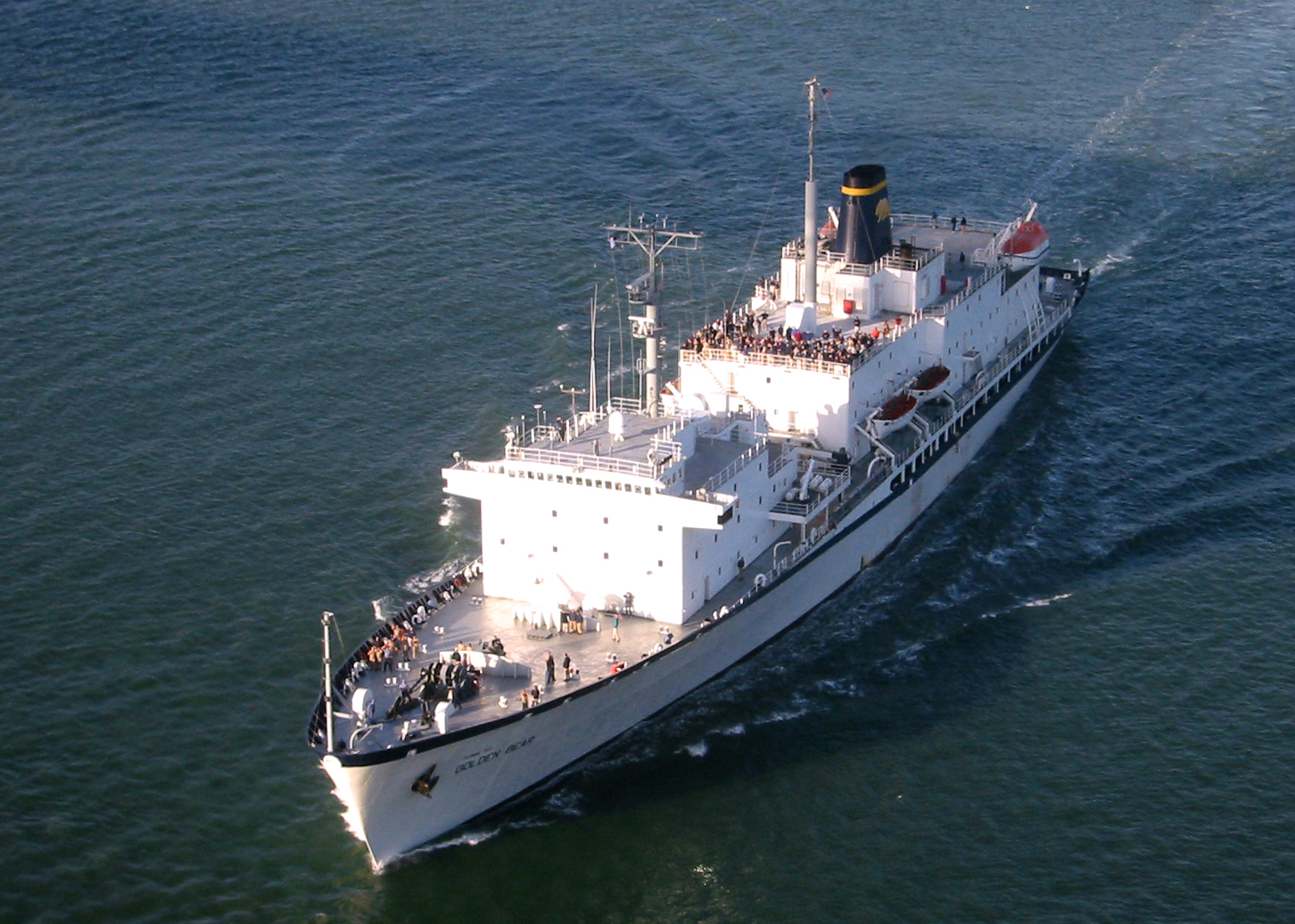 The California Maritime Academy training ship Golden Bear just before passing under the Golden Gate Bridge on the way out of San Francisco Bay. IMO Number: 8834407 MMSI Number: 367978000 Callsign: NMRY Length: 152 m Beam: 22 m